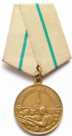 USSR Medal "Defense of Leningrad" Crop of the commons image: Image:Medal Leningrad USSR.jpg